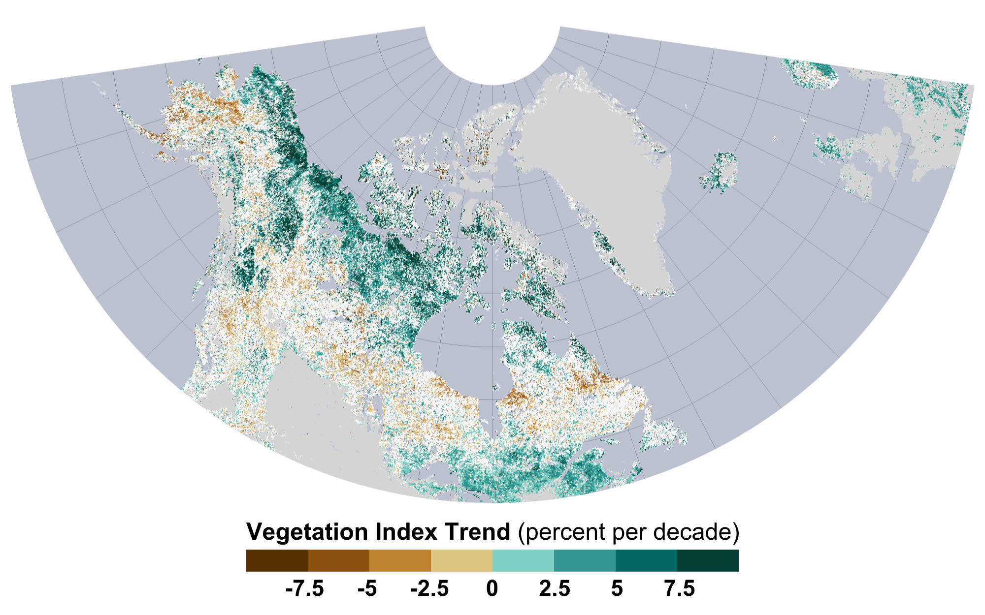 Over the past three decades, temperatures have risen faster in the Arctic than anywhere else in the world. Consequently, the growing season has gotten longer in the far northern latitudes, bringing major changes to plant communities in tundra and boreal (also known as taiga) ecosystems. For decades, instruments on various NASA and NOAA satellites have continuously monitored vegetation from space. The Moderate Resolution Imaging Spectroradiometer (MODIS) and Advanced Very High Resolution Radiometer (AVHRR) instruments measure the intensity of visible and near-infrared light reflecting off of plant leaves. Scientists use that information to calculate the Normalized Difference Vegetation Index (NDVI), an indicator of photosynthetic activity or “greenness” of the landscape. The map shows NDVI trends between July 1982 and December 2011 for the northern portions of North America and Eurasia. Shades of green depict areas where plant productivity and abundance increased; shades of brown show where photosynthetic activity declined. There was no significant trend in areas that are white, and areas that are gray were not included in the study. An international team of university and NASA scientists published their analysis of the NDVI data in Nature Climate Change in March 2013. The map shows a ring of greening in the treeless tundra ecosystems of the circumpolar Arctic—the northernmost parts of Canada, Russia, and Scandinavia. Tall shrubs and trees started to grow in areas that were previously dominated by tundra grasses. The researchers concluded that plant growth had increased by 7 to 10 percent overall.